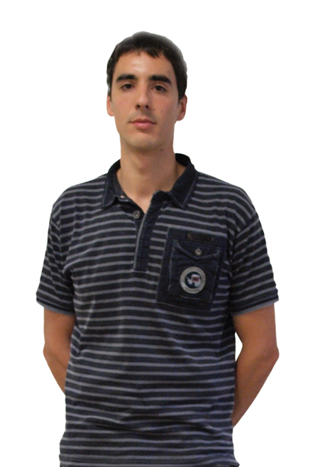 Peio Martinez de Eulate, former Basque pelota professional player, Bildu coalition Pamplona-Iruñea city councilor.